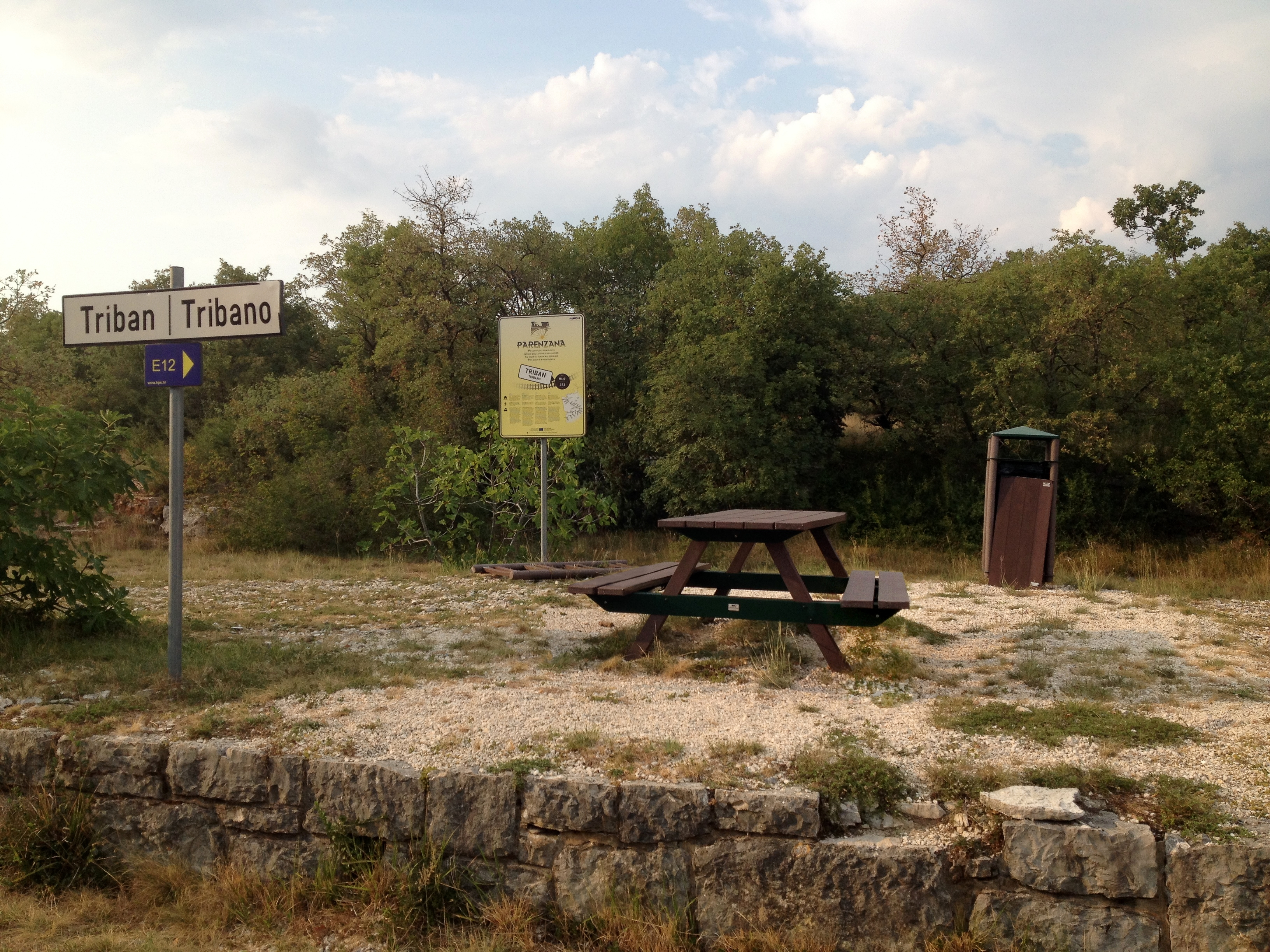 former railway station of the Parenzana; now part of the European long-distance path E12 and a mountainbike trail near Buje town